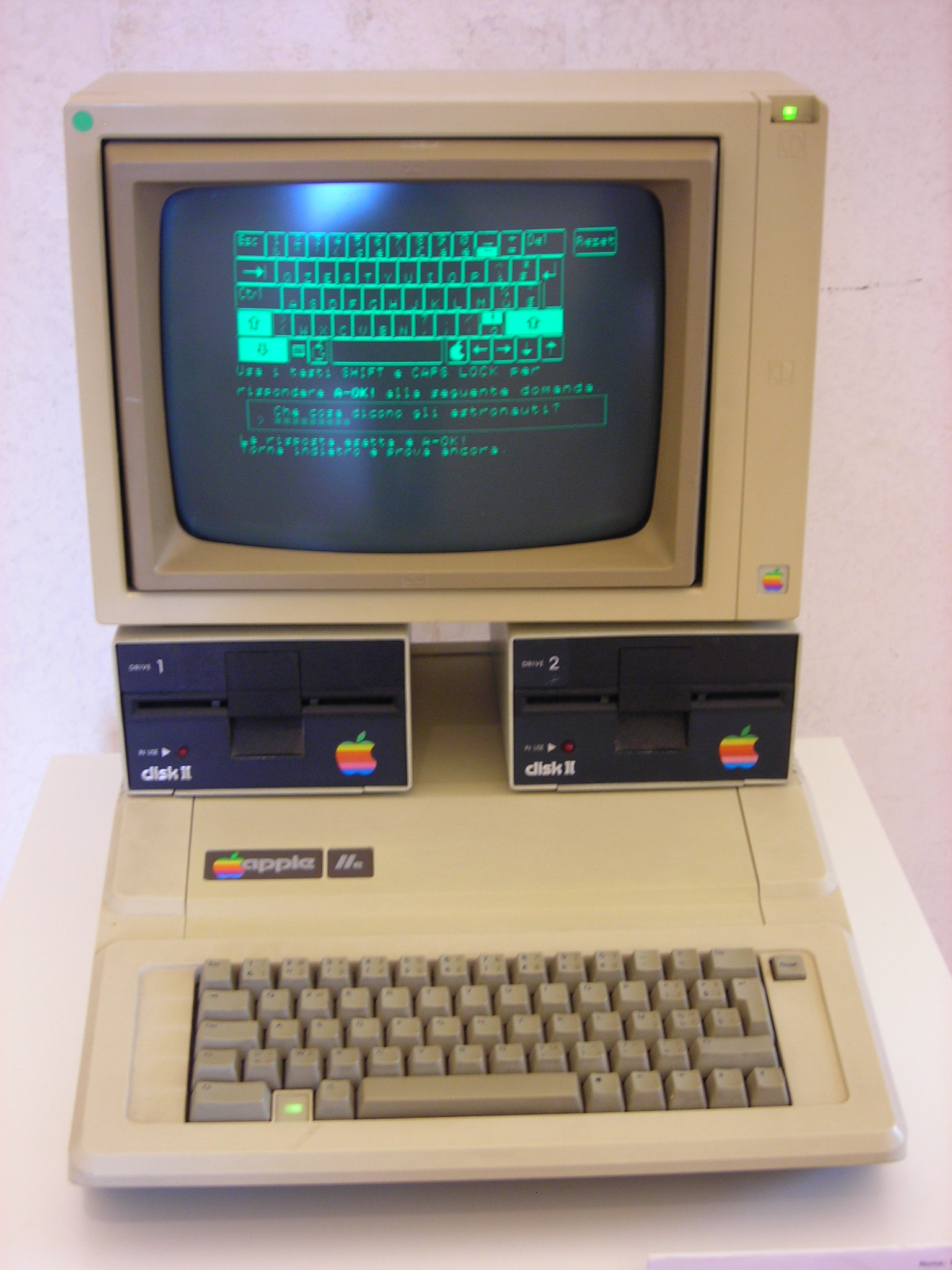 Apple IIe with 2 Disk II drives and Apple Monitor II